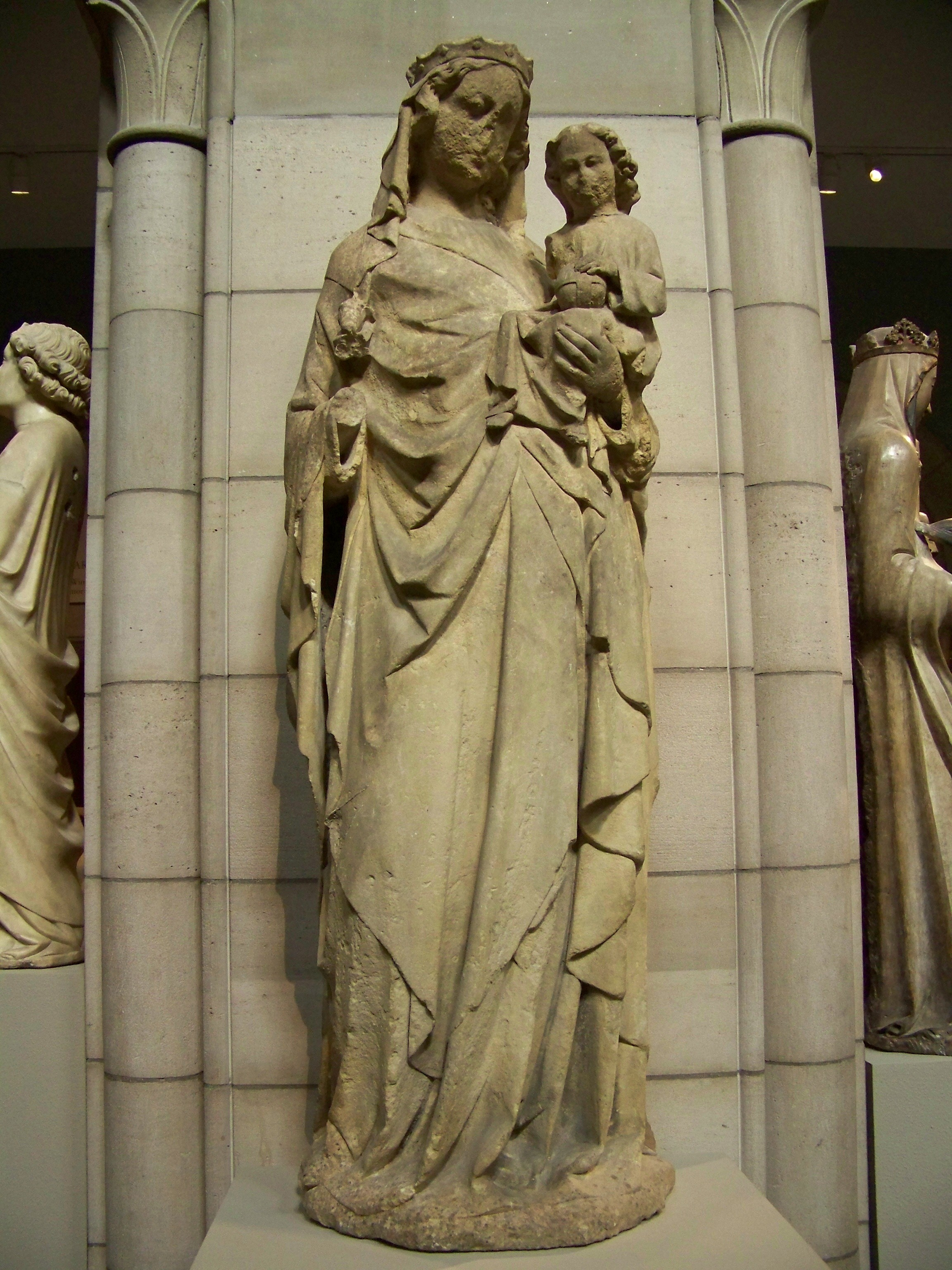 Alexander of Abingdon (active ca. 1291– ca. 1316) Virgin and Child, late 13th- early 14th century English Caen Limestone; Overall: 59 1/4 x 19 3/8 x 11 3/4 in. (150.5 x 49.2 x 29.8 cm) The Metropolitan Museum of Art, New York, Purchase, Edward J. Gallagher Jr. Bequest, in memory of his father, Edward Joseph Gallagher, his mother, Ann Hay Gallagher, and his son, Edward Joseph Gallagher III; and Caroline Howard Hyman Gift, 2003 (2003.456) View at the Metropolitan Museum of Art website Wikipedia Loves Art at the Metropolitan Museum of Art This photo of item # 2003.456 at the Metropolitan Museum of Art was contributed under the team name "Opal_Art_Seekers_4" as part of the Wikipedia Loves Art project in February 2009. Metropolitan Museum of Art The original photograph on Flickr was taken by KaDeWeGirl—please add a comment to the original Flickr page whenever a use has been made on Wikipedia or another project. Project galleries on Flickr: this institution, this team